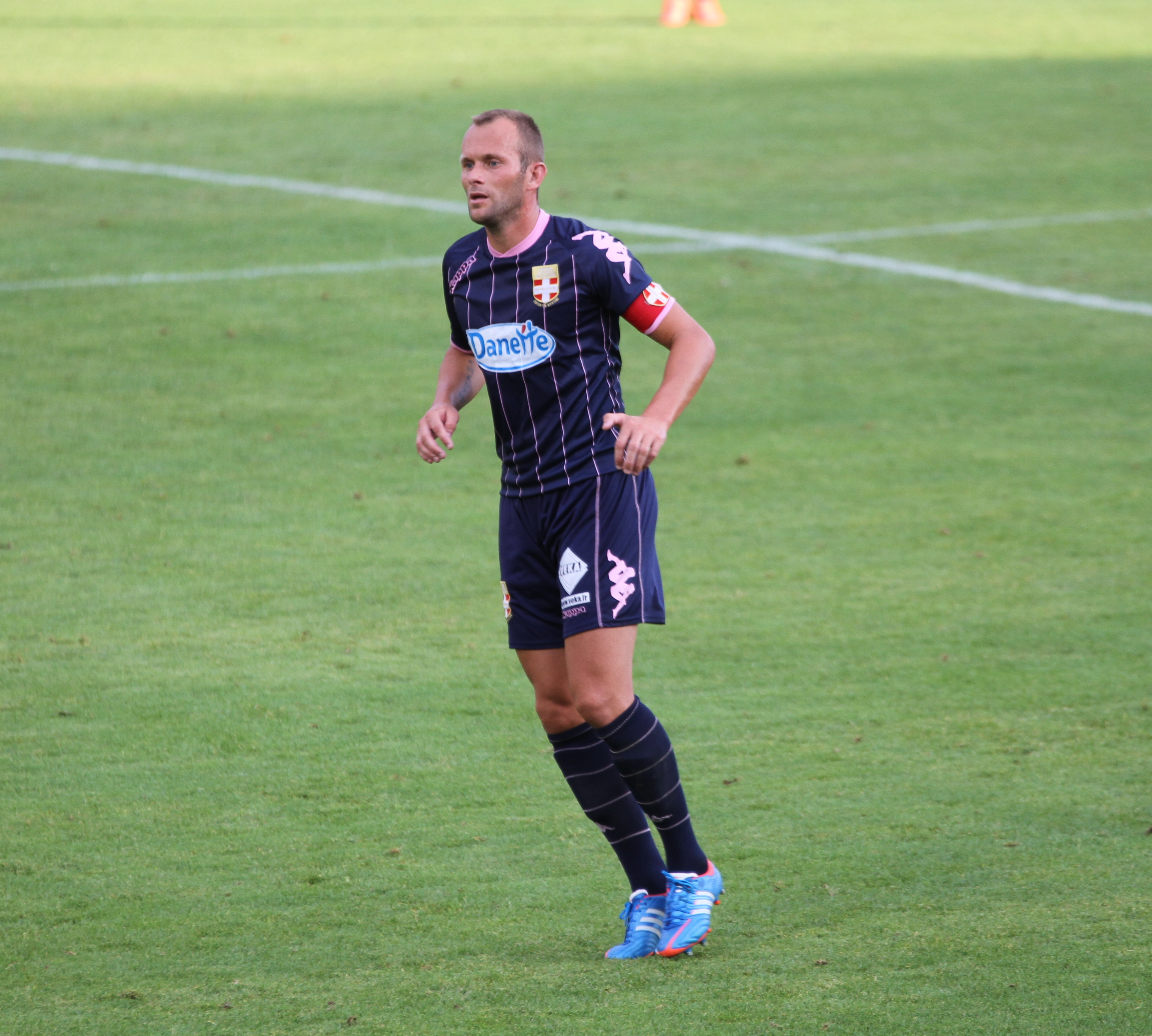 Olivier Sorlin